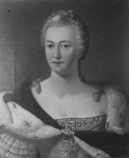 Johanna Magdalena of Saxe-Weissenfelfs (1708-1760), Duchess of Courland